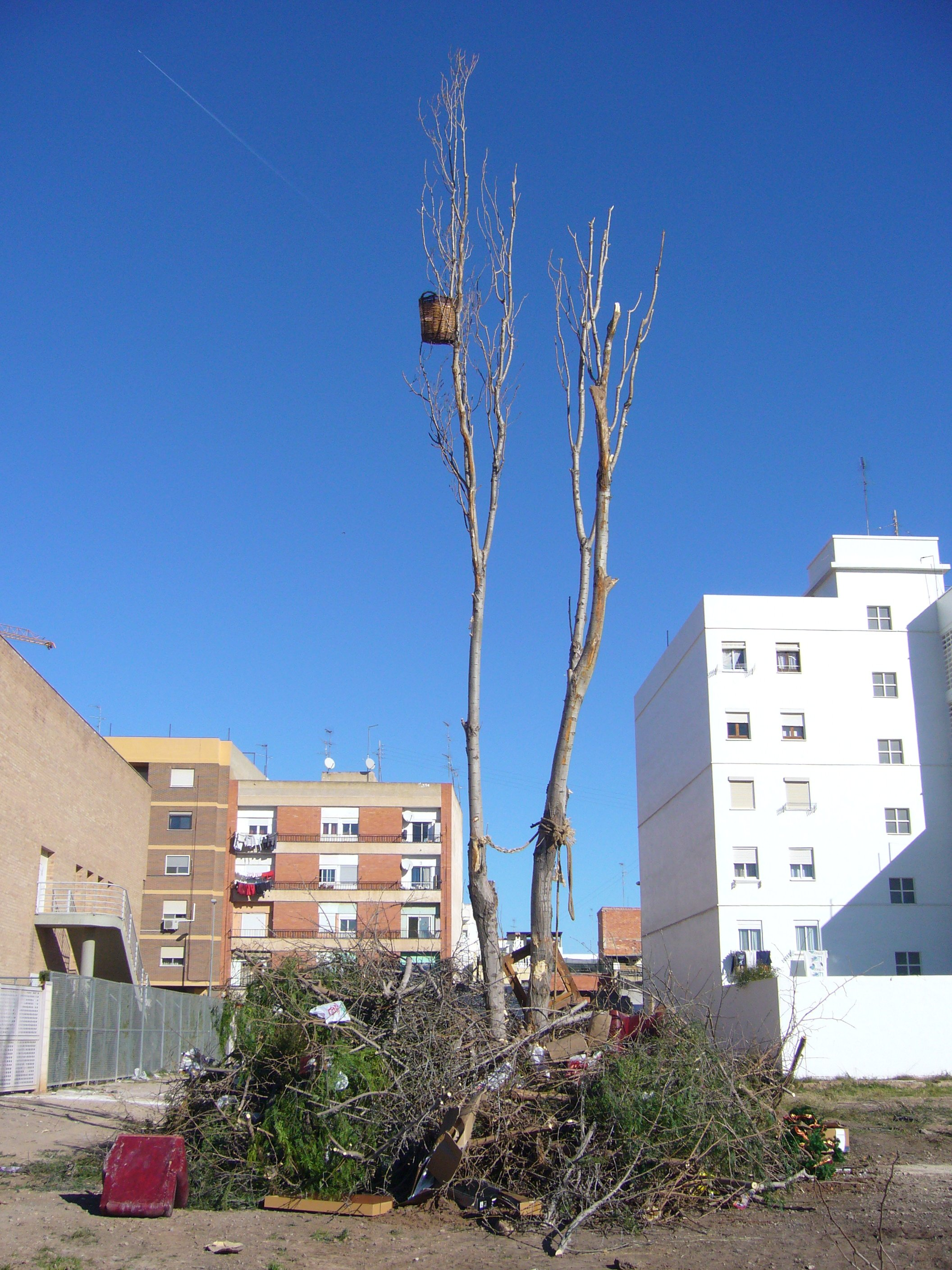 Falla in Massalfassar